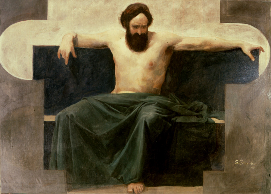 "Patriarch", oil on canvas, 40.15 x 58.26 in.